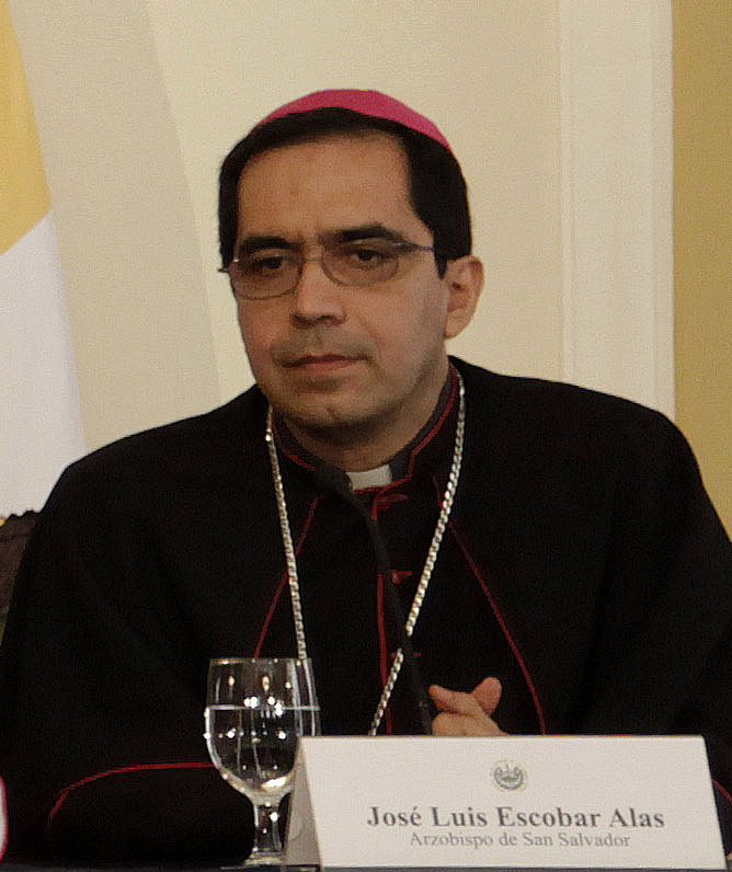 DE IZQ. A DER.: NUNCIO APOSTOLICO,LEON KALENGA;HUGO MARTINEZ ,CANCILLER DE EL SALVADOR ; SALVADOR SANCHEZ CEREN , PRESIDENTE DE EL SALVADOR ;MONSEÑOR VINCENZO PAGLIA , MONSEÑOR JOSE LUIS ESCOBAR ALAS . DURANTE LA CONFERENCIA DE PRENSA DE LA CAUSA DE MONSEÑOR ROMERO EN EL VATICANO.